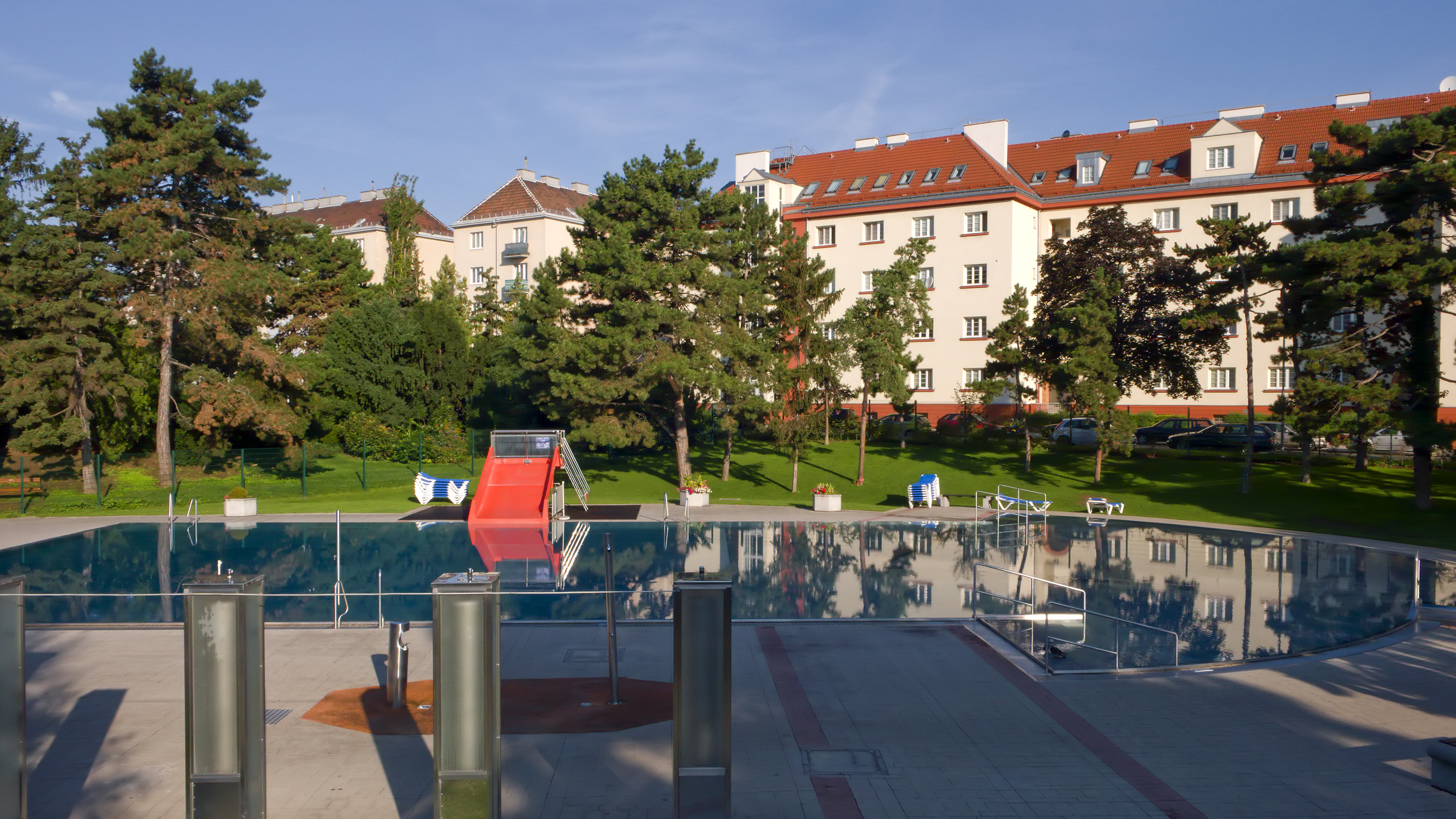 Public park Herderpark in Vienna Simmering